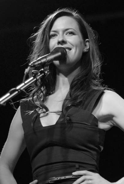 Joy Williams performing during a The Civil Wars concert in Kansas City on June 30, 2011. Photographed with a Canon EOS Rebel T1i.